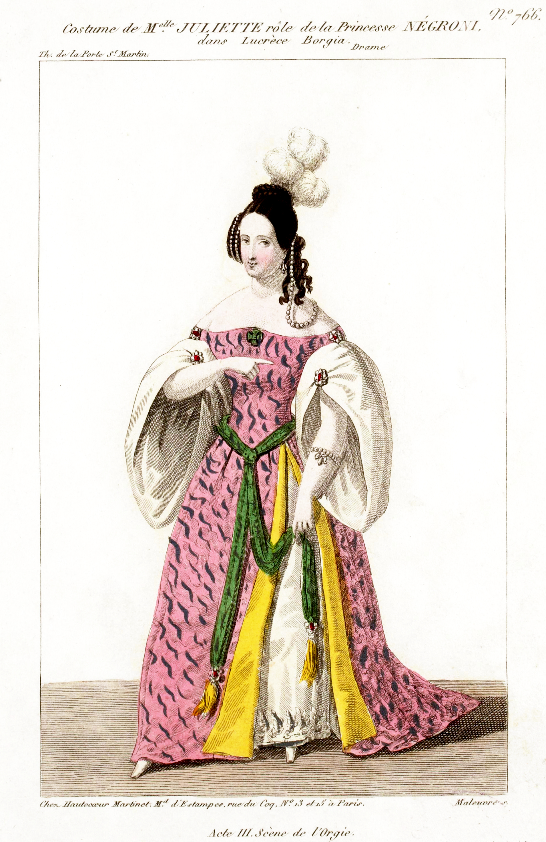 Juliette Drouet, French actress of the 19th century